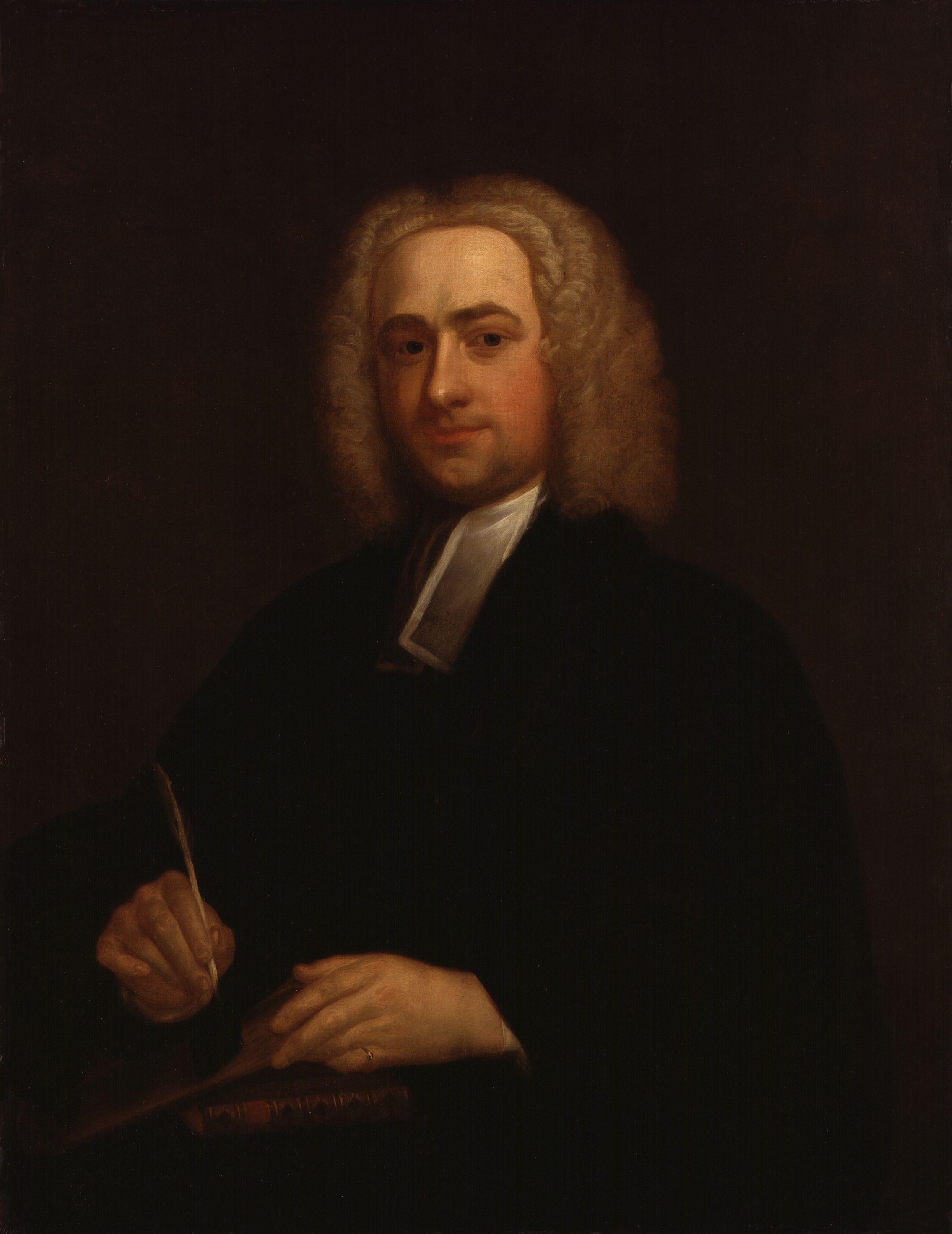 Thomas Birch, by unknown artist. All images in this batch have an unknown author, but there is strong evidence it was first published before 1923 (based mainly on the NPG's estimated date of the work).